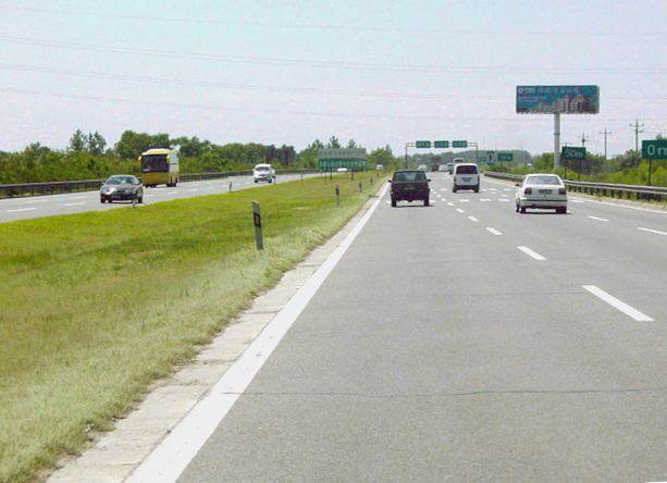 Jingshi Expressway after Dujiakan Toll Gate. Taken by Wikipedian DF08 in July 2004. Color modified.